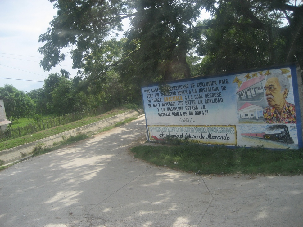 Image depicting the town of Aracataca, Colombia.